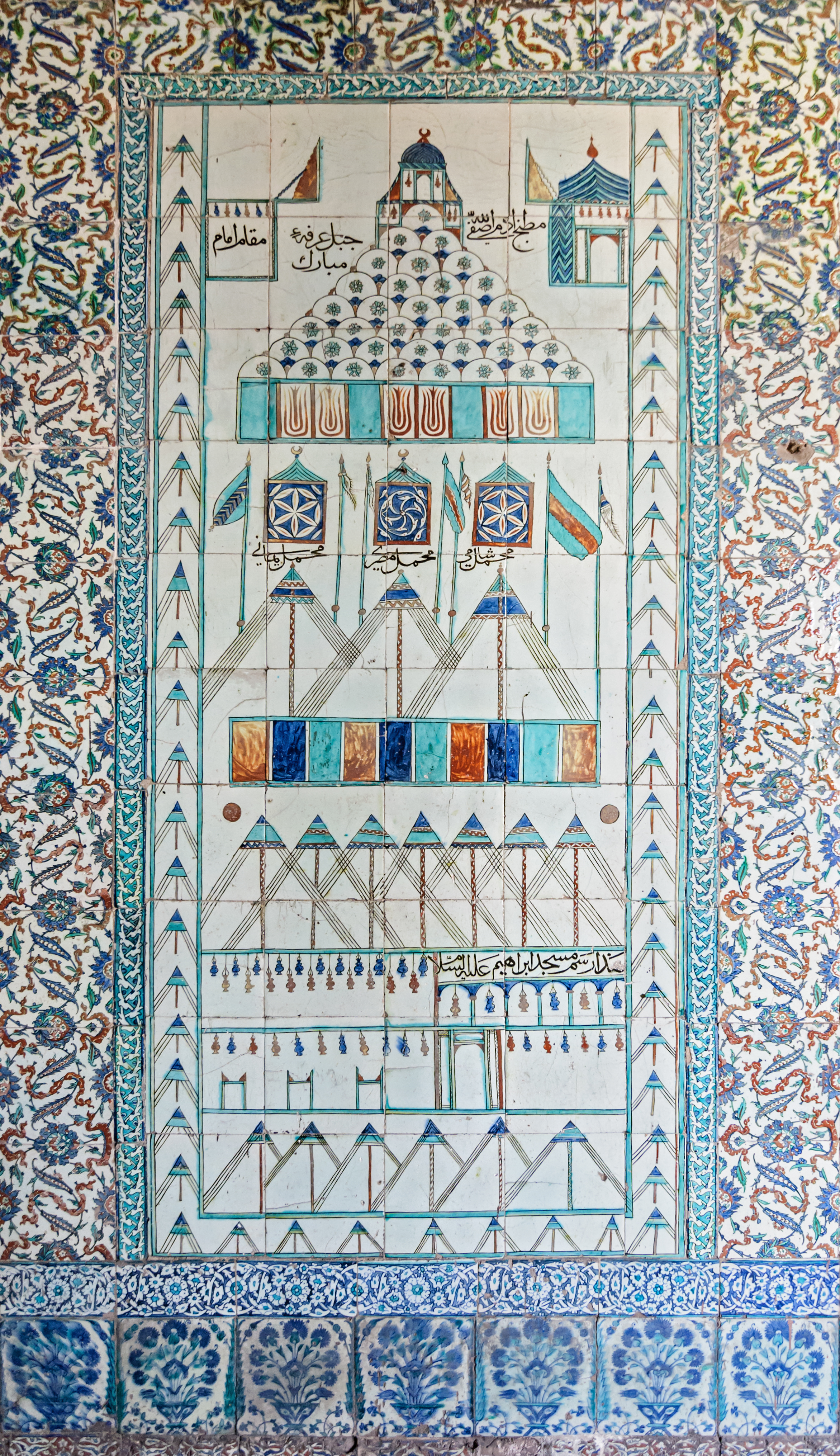 Camp of the Mount Arafat. İznik tiles, courtyard of the Valide Sultan,Topkapı Palace, Istanbul, Turkey.